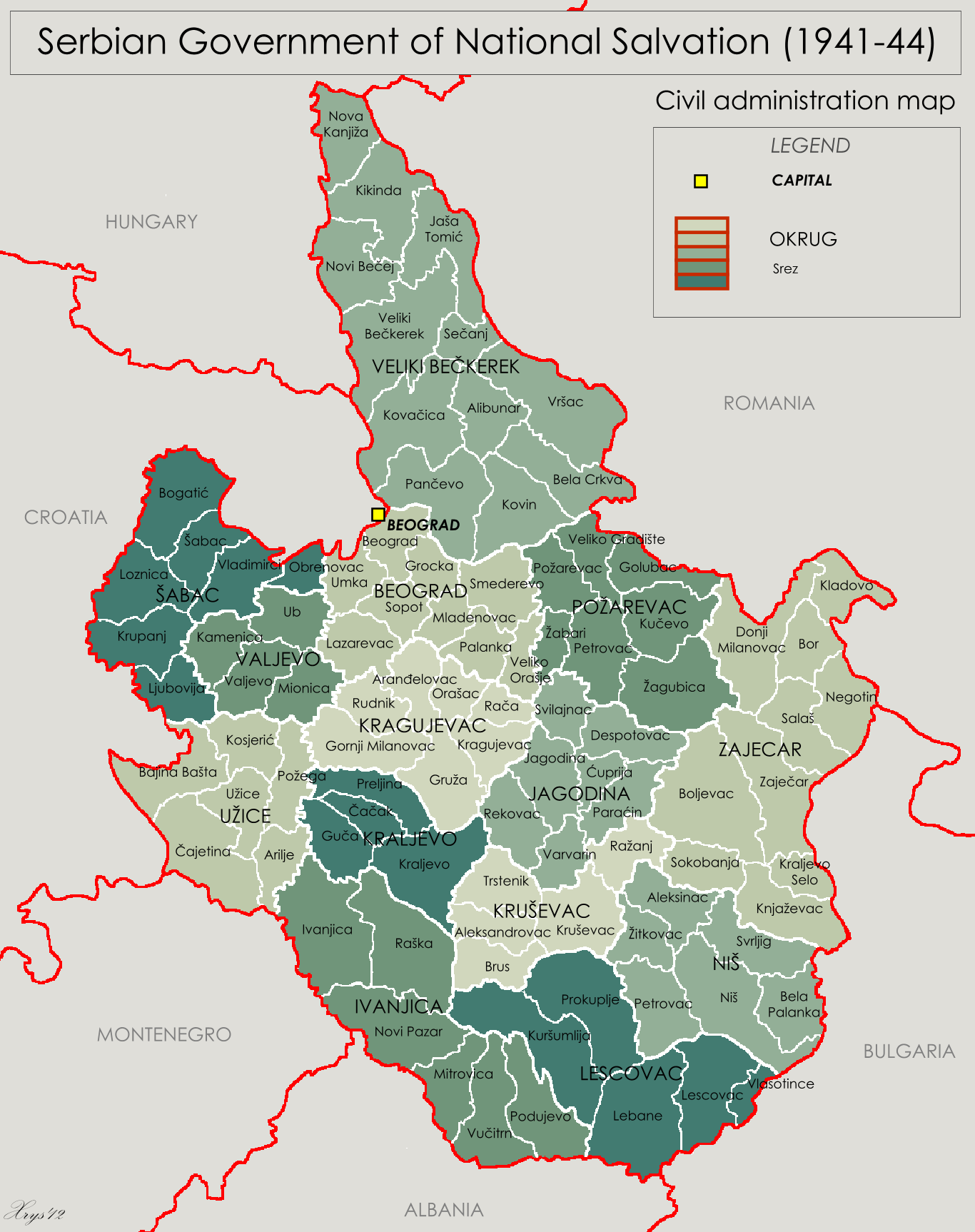 Map showing the Okruzi and Srezovi of Serbia from 1941-44.